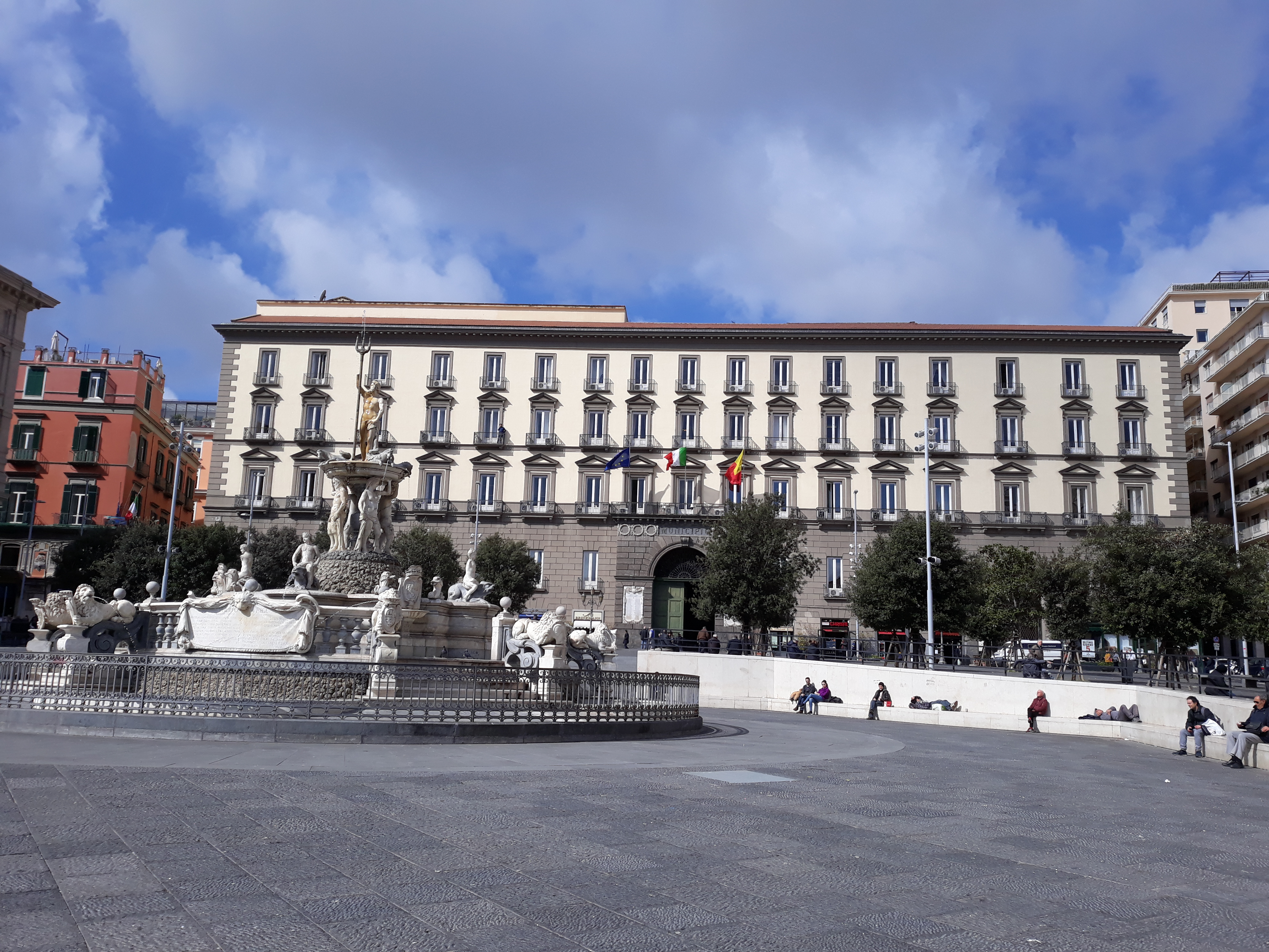 Neptune's Fountain (Fontana del Nettuno) in the Piazza Municipio, Naples, Italy.